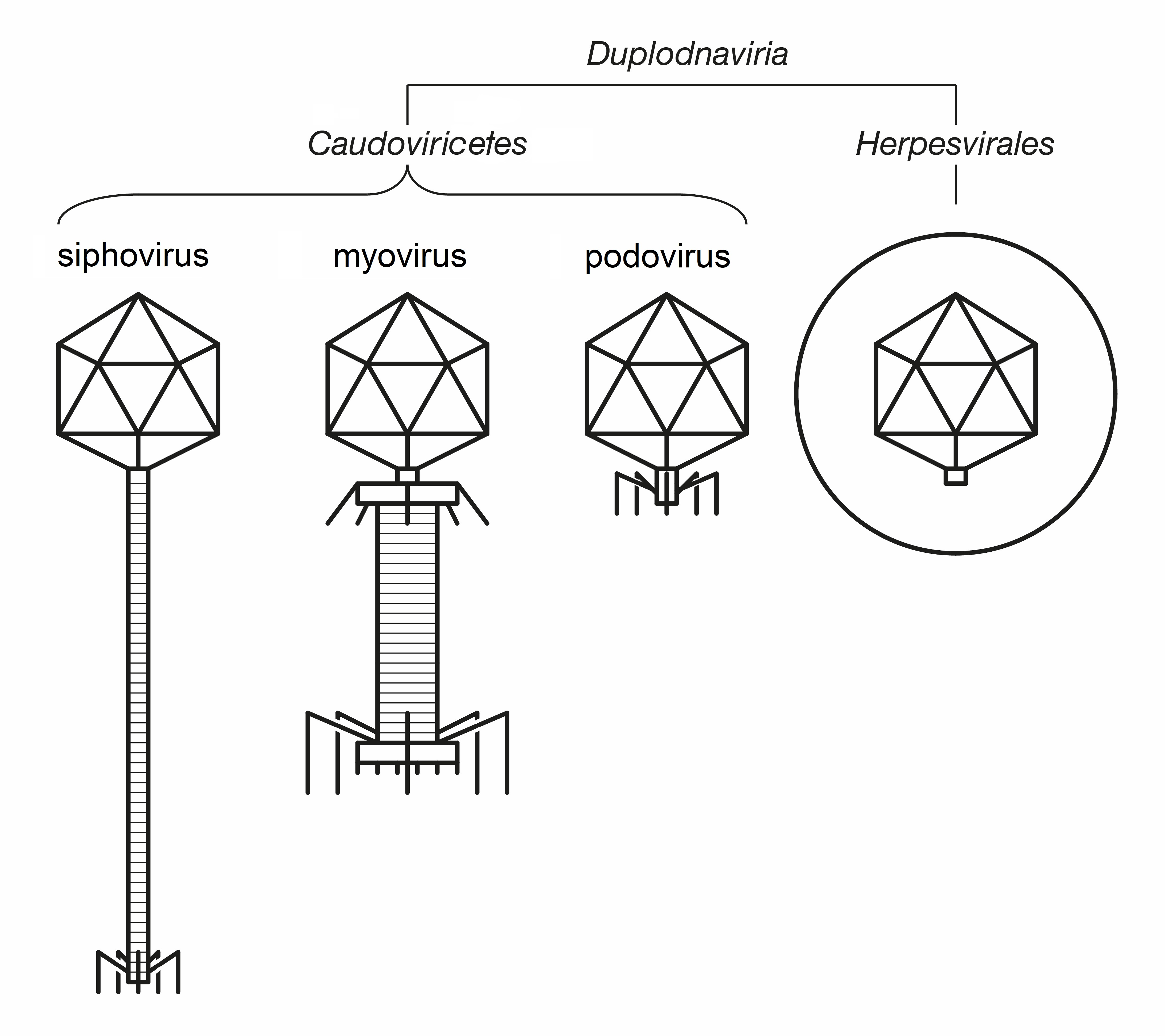 Computer-generated illustration showing a sample of virion morphological diversity in the realm Duplodnaviria. From left to right: Siphoviridae (Caudovirales), Myoviridae (Caudovirales), Podoviridae (Caudovirales), Herpesviridae (Herpesvirales).